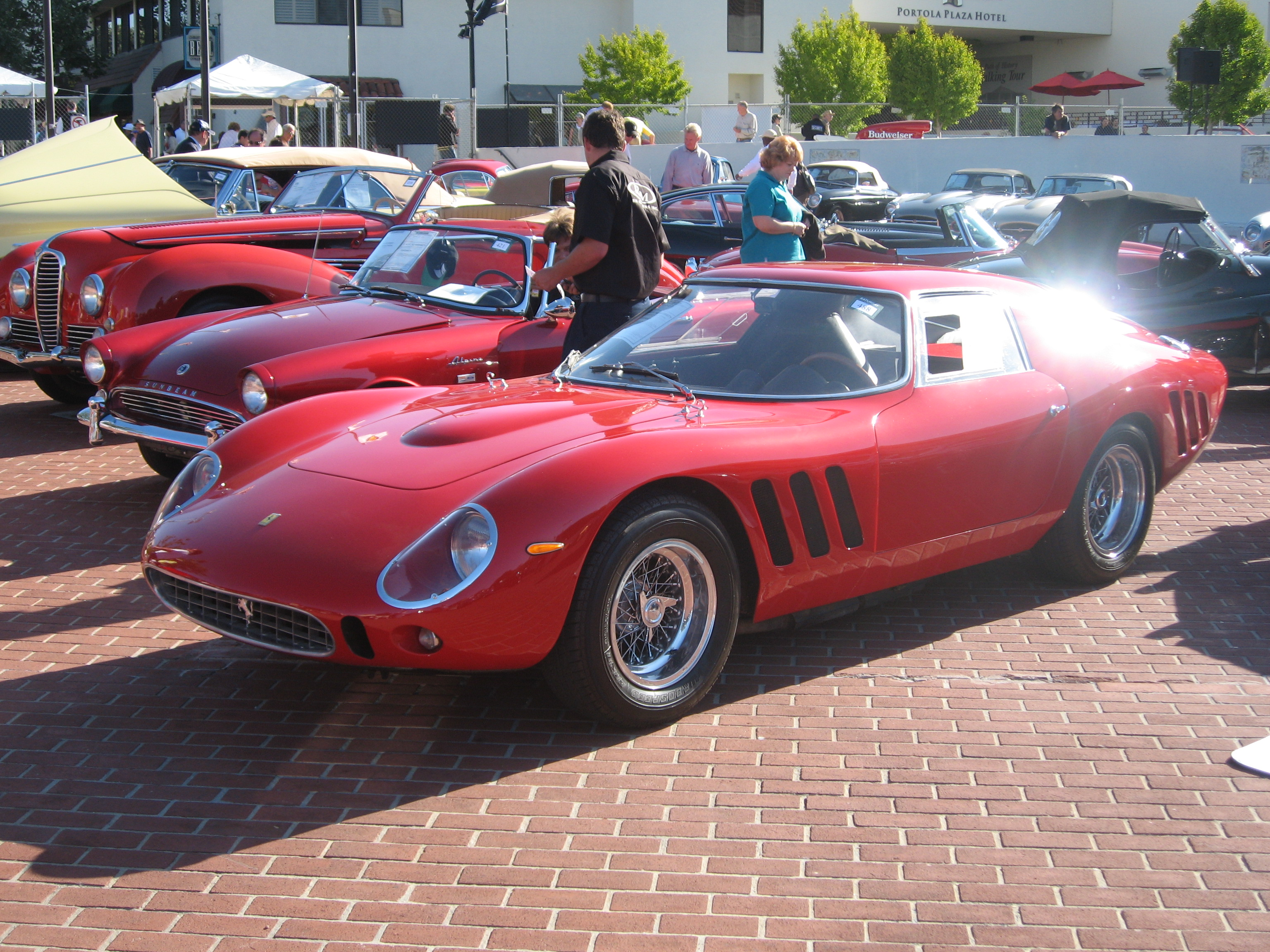 1963 Ferrari 250 GT 2+2 "Drogo" s/n 4769GT on display on August 20, 2006 for the RM auction in Monterey, California.